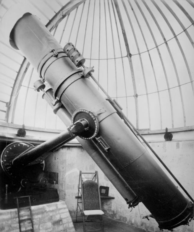 Telescope at the Harvard Observatory Accession Number: 1974:0056:0869 Maker: William M. Vander Weyde (American 1871–1929) Medium: negative, gelatin on glass Dimensions: Height: 8.5″ (21.5 cm); Width: 6.5″ (16.5 cm) dimensions QS:P2048,8.5U218593;P2049,6.5U218593 George Eastman Museum Native nameGeorge Eastman House International Museum of Photography and FilmLocationRochester, United States of AmericaCoordinates43° 09′ 10″ N, 77° 34′ 49″ W Established1949Web page control : Q1507284 VIAF: 132694857 ISNI: 0000 0004 0459 1733 ULAN: 500276536 LCCN: n79086438 NLA: 36554246 WorldCat institution QS:P195,Q1507284